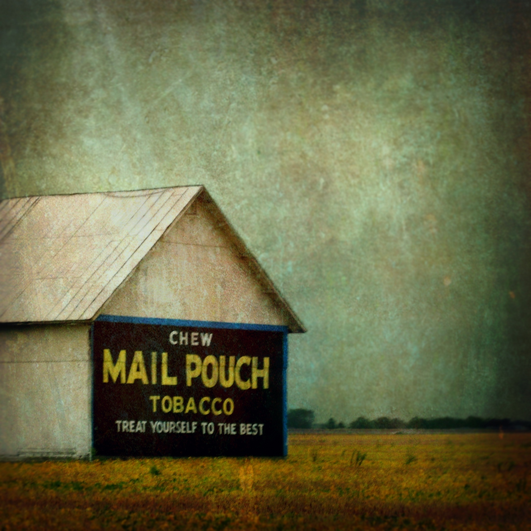 A Mail Pouch Tobacco Barn, or simply Mail Pouch Barn, is a barn with one or more sides painted from 1890 to 1992, in advertisement for the West Virginia Mail Pouch chewing tobacco company (Bloch Brothers Tobacco Company), based in Wheeling, West Virginia. At the height of the program in the early 1960s, there were about 20,000 Mail Pouch barns spread across 22 states.